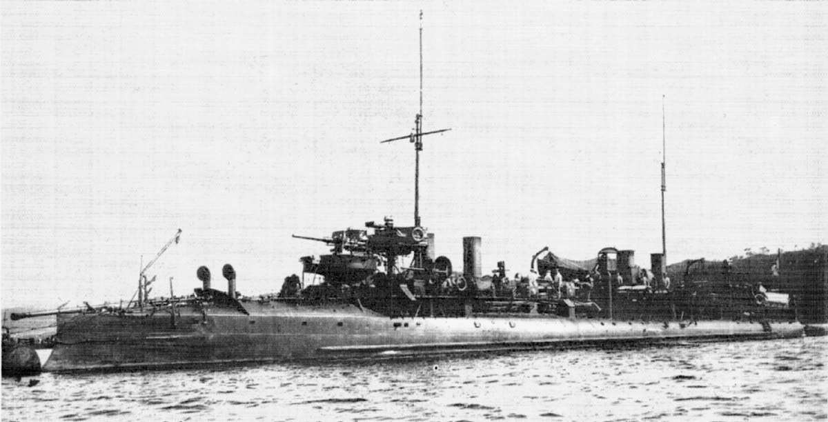 Imperial Russian topedo boat Grozovoy.